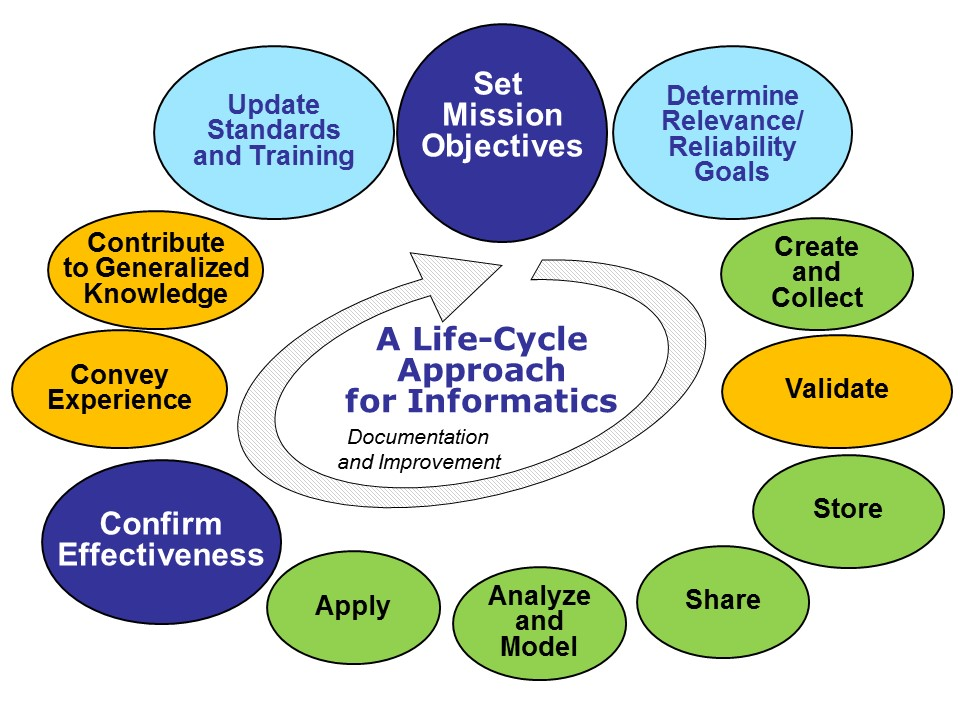 This graphic illustrates that the working definition of the nanoinformatics life cycle comprises: Determining which information is relevant to meeting the safety, health, well-being, and productivity objectives of the nanoscale science, engineering, and technology community; Developing and implementing effective mechanisms for collecting, validating, storing, sharing, analyzing, modeling, and applying the information; Confirming that appropriate decisions were made and that desired mission outcomes were achieved as a result of that information; and, finally, Conveying experience to the broader community, contributing to generalized knowledge, and updating standards and training.